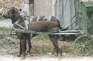 Dogs drawing a Postal cart (detail)